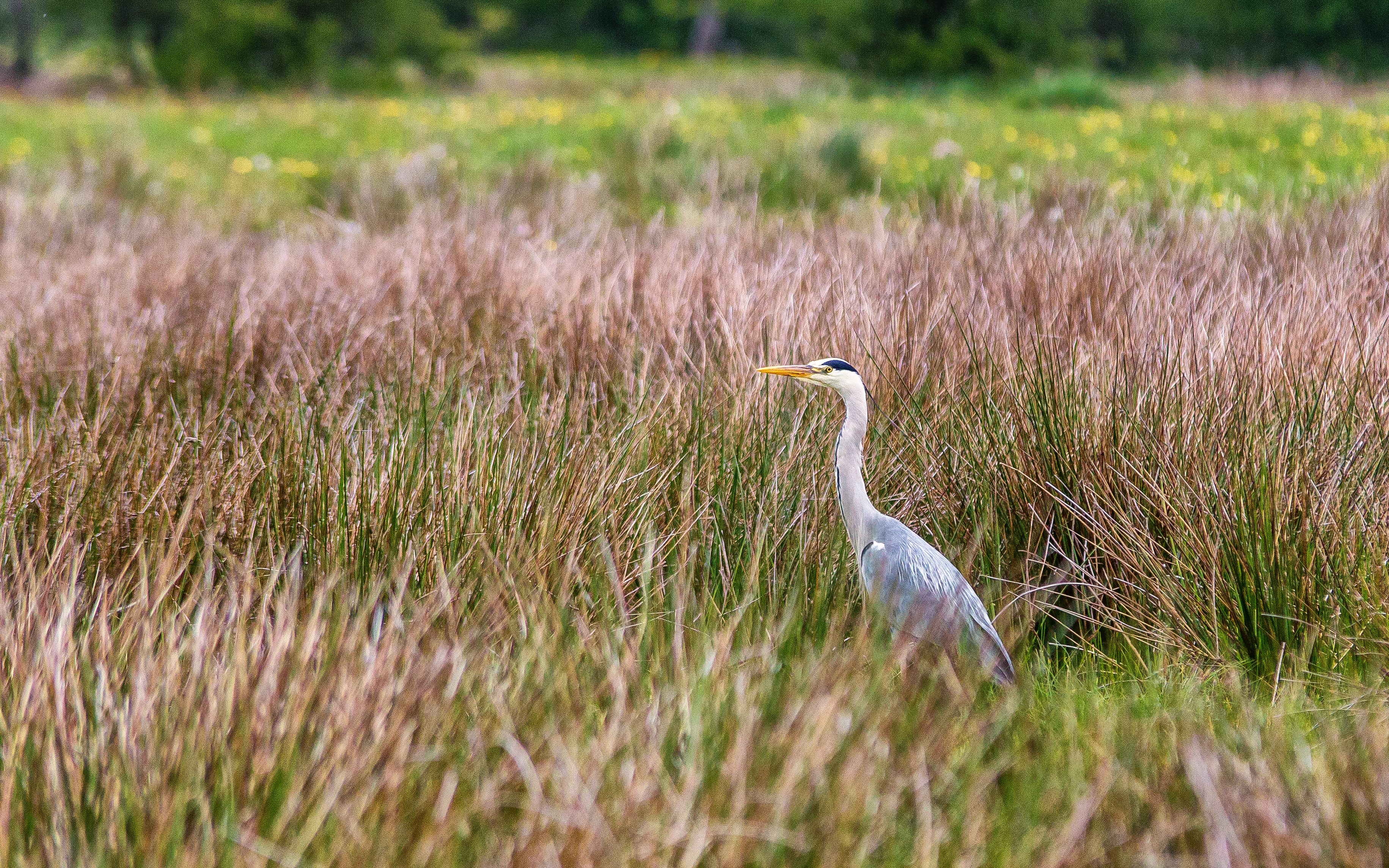 Grey Heron (Ardea cinerea)